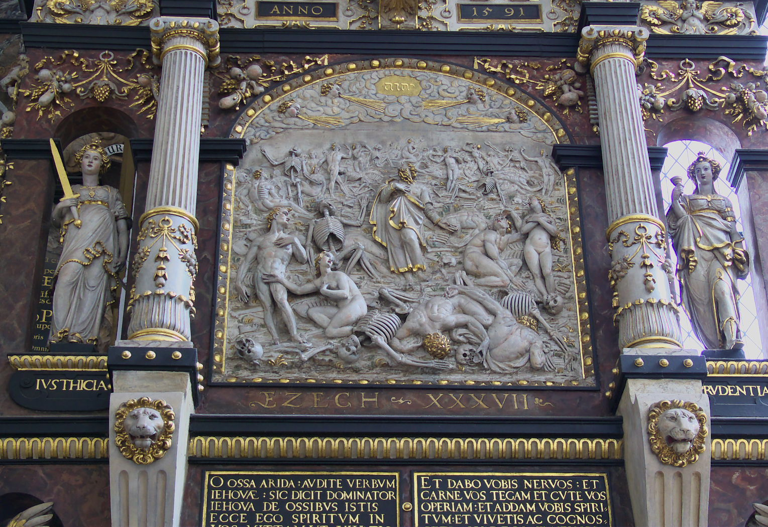 Willem van den Blocke, Epitaph on Edward Blemke (1591) in Gdańsk, St. Mary's Church